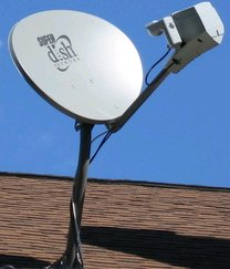 A DISH Network SuperDISH 121 mounted on a house.